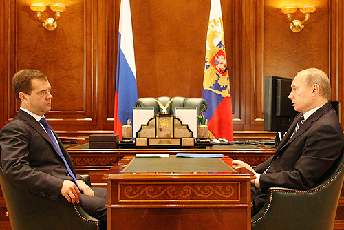 GORKI, MOSCOW REGION. With Prime Minister Vladimir Putin.